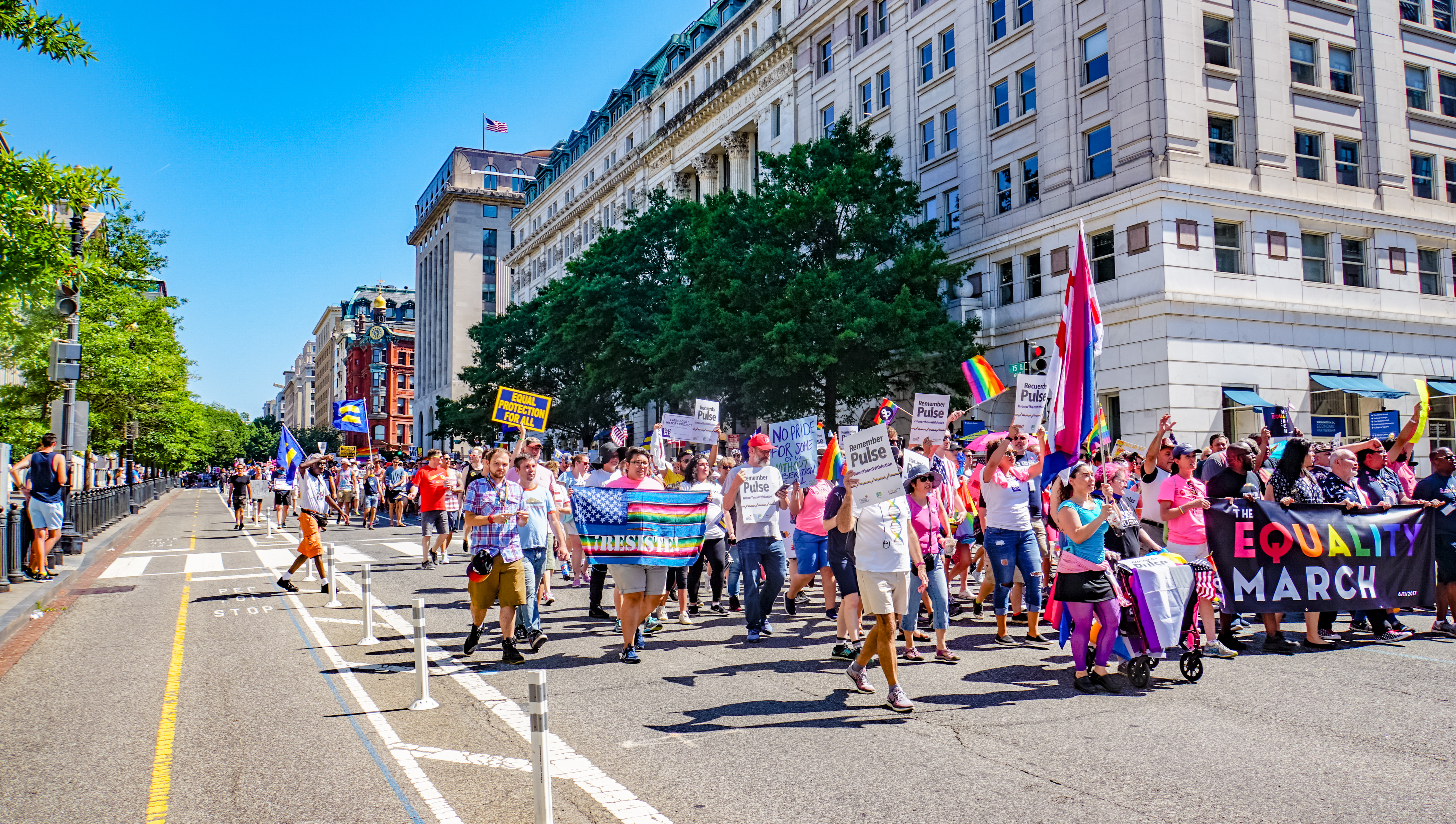 On June 11, 2017, the Equality March mobilized LGBTQ+ communities and our allies to affirm and protect our rights, our safety and our full humanity. Twitter: @EqualityMarch17